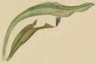 Stainton’s Natural History of the Tineina (1855–1873): Coleophora pennella leaves of Echium vulgare eaten by the larva, with two cases larval attached